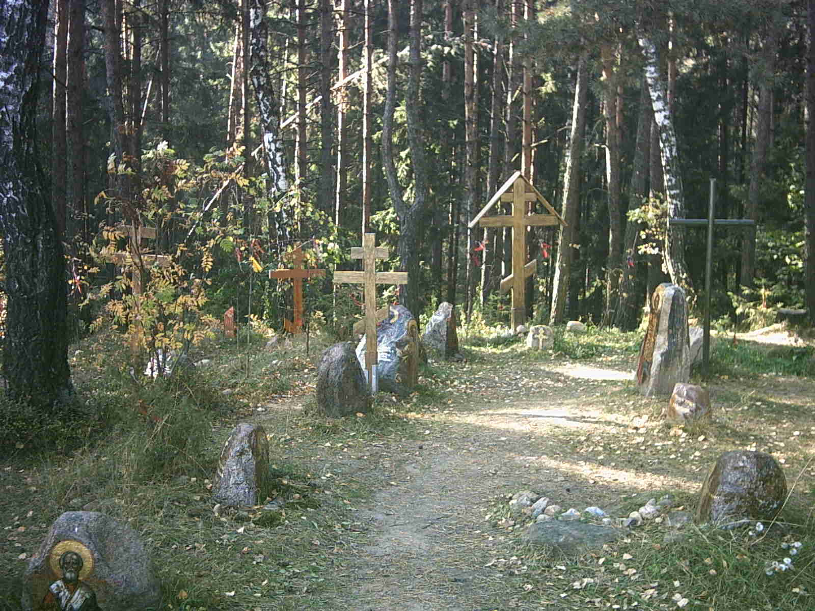 Mahnmal Kurapaty selbst fotografiert